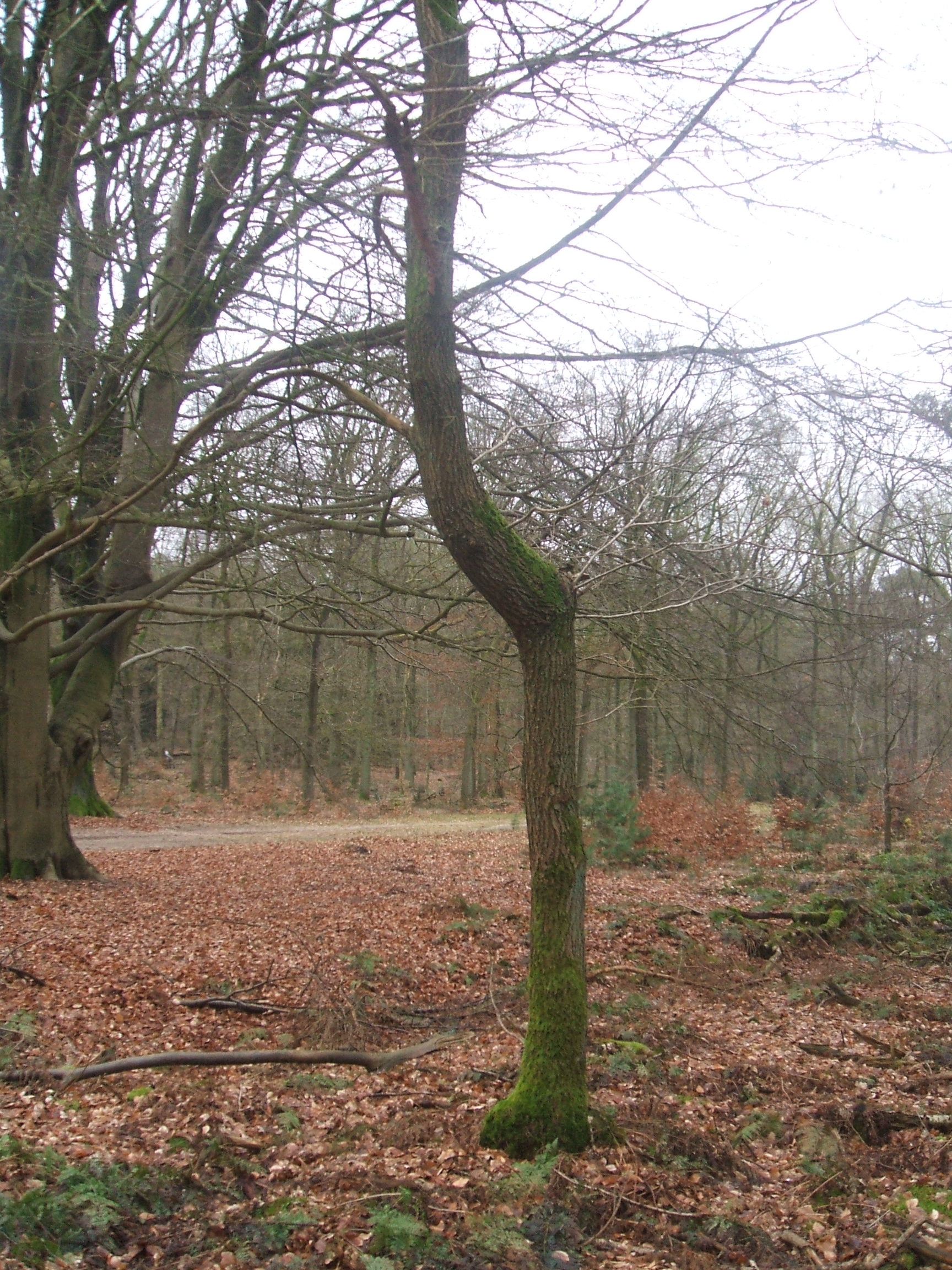 Apical dominance in an oak tree.